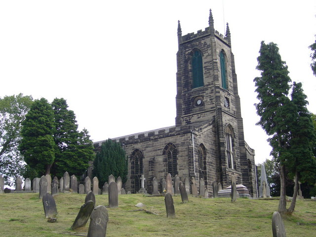 Cheadle Parish Church. off the High Street, Cheadle, Staffordshire. Dedicated to St Giles the Abbot as is 224425